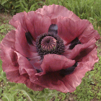 poppy picture